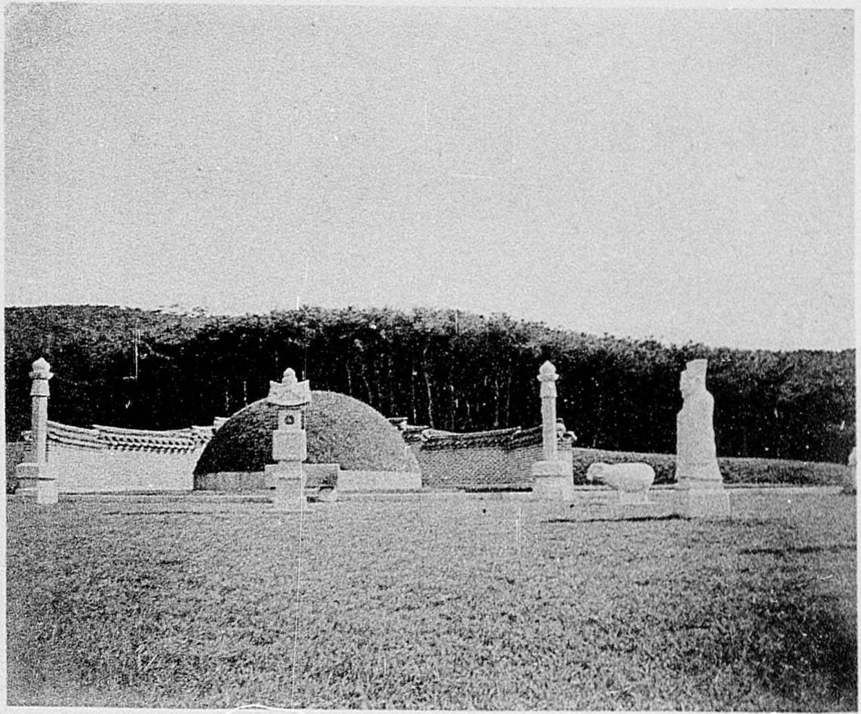 Tomb of the Daewongun near Yong-San.